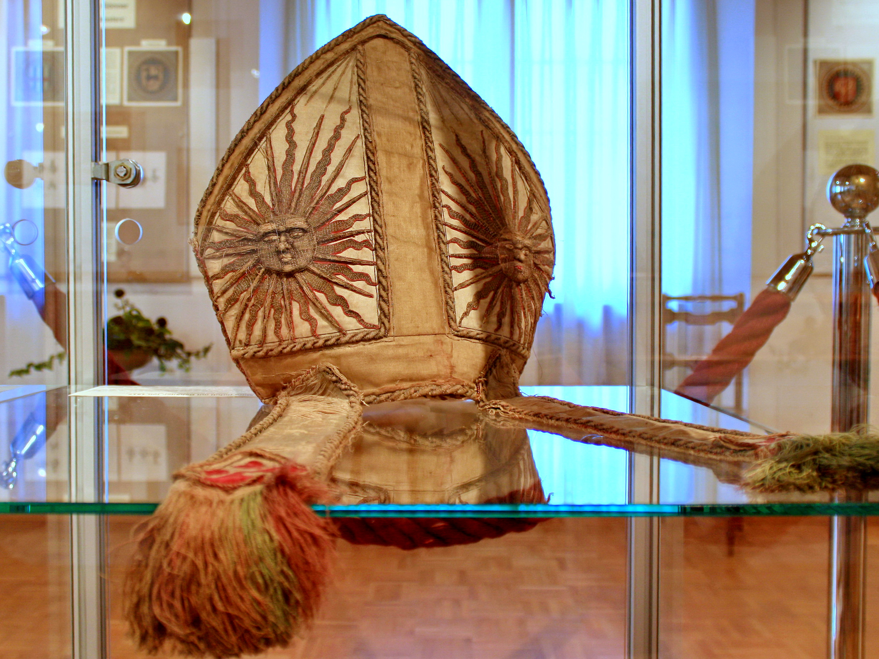 Rüti (ZH) : Treasury of the former Premonstratensian Abbey, Ortsmuseum (museum of local history) in the Amthaus Rüti (Bailiff's house).